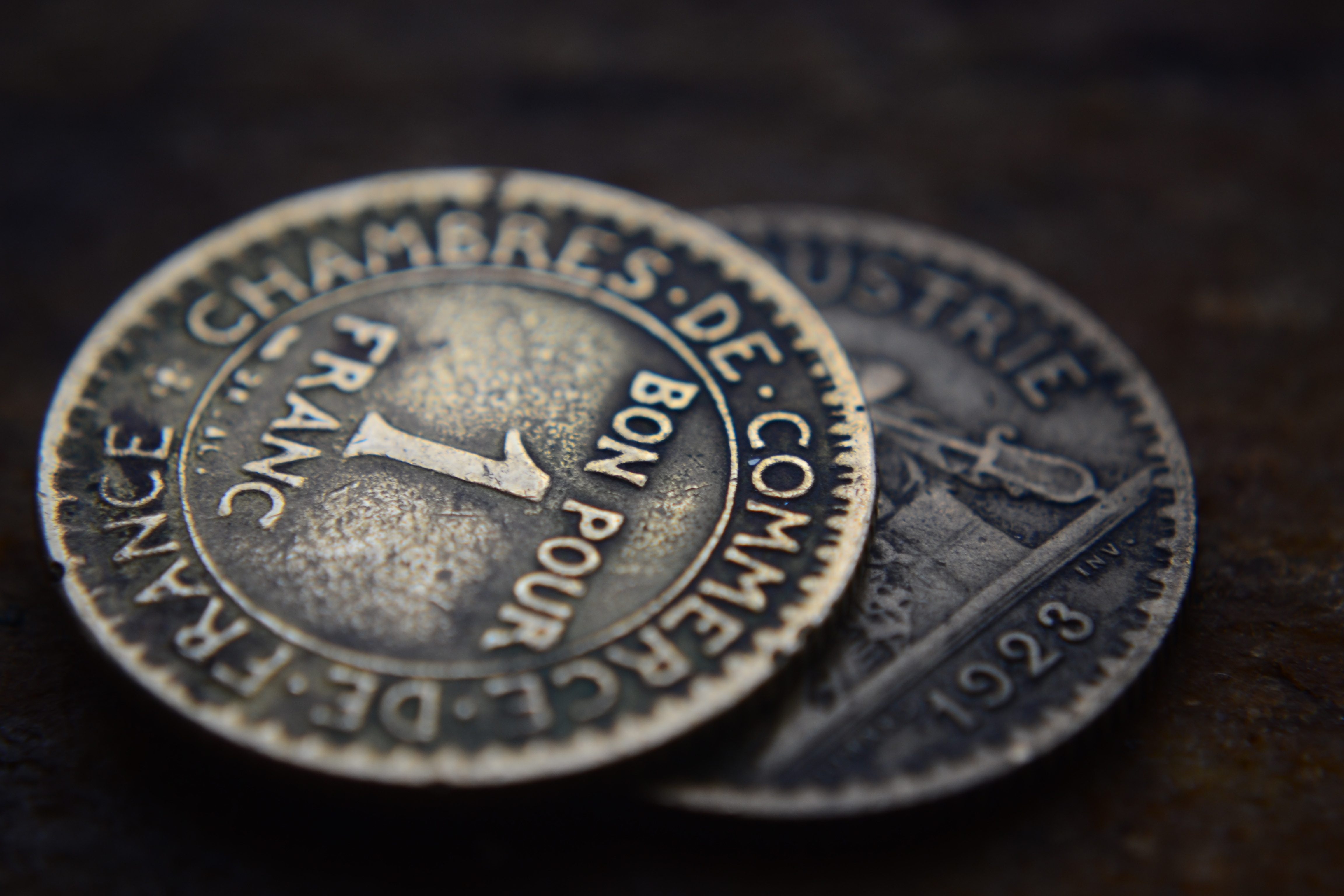 Two early 1920s "Bon Pour 1 Franc" Chambers De Commerce De France tokens, the 1921 token was found in a stream in Elsdon, Northumberland, UK by me in the 1960s